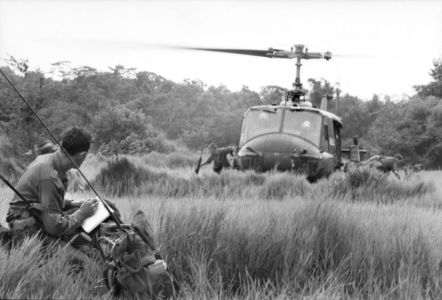 Vietnam. 1966-09-08. Signalman with notepad watching soldiers of the 5th Battalion, The Royal Australian Regiment (5RAR), disembarking from a US Iroquois helicopter on extraction from Operation Toledo.